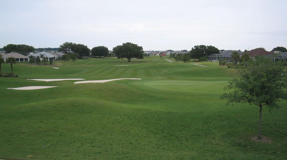 Photo of the 18th green at Tierra Del Sol, one of the golf courses within The Villages.